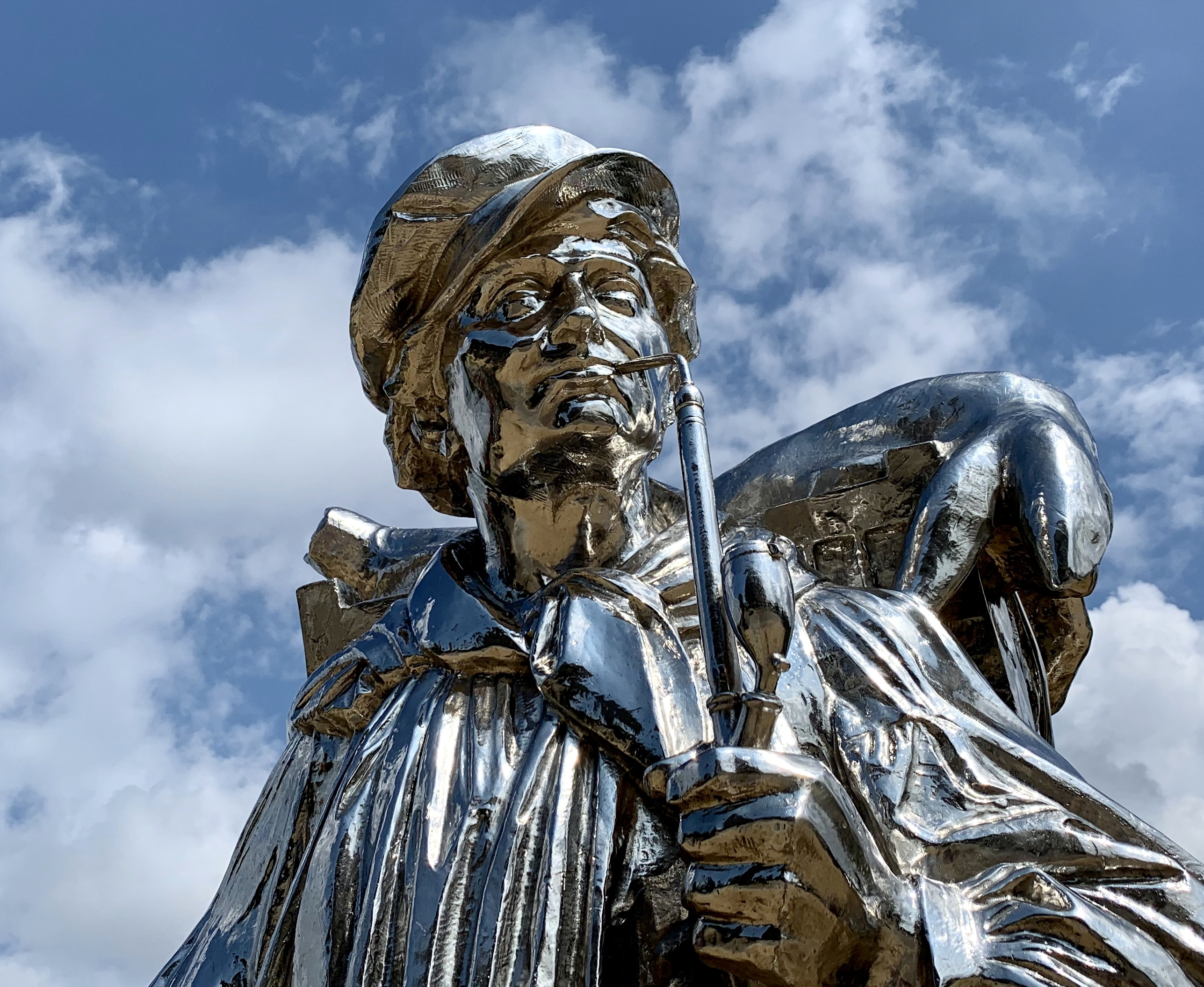 Kiepenkerl, a 1987 stainless steel sculpture located in the Hirshhorn Museum's Sculpture Garden, on the National Mall in Washington, D.C.